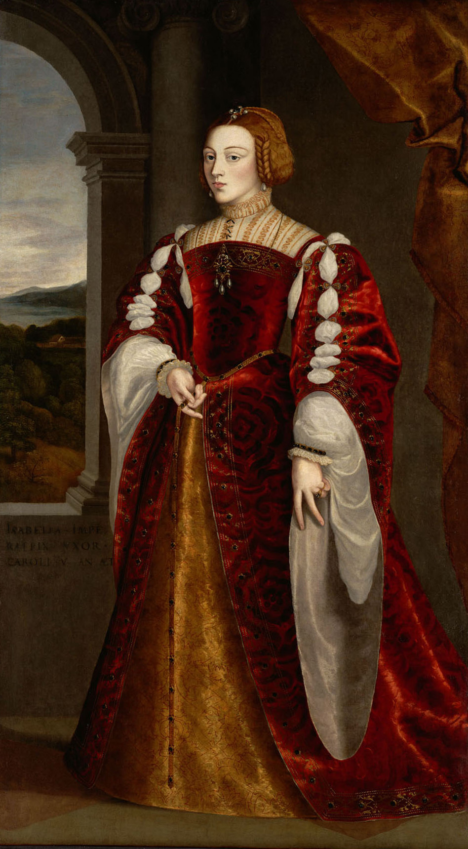 Isabella of Portugal, Holy Roman Empress